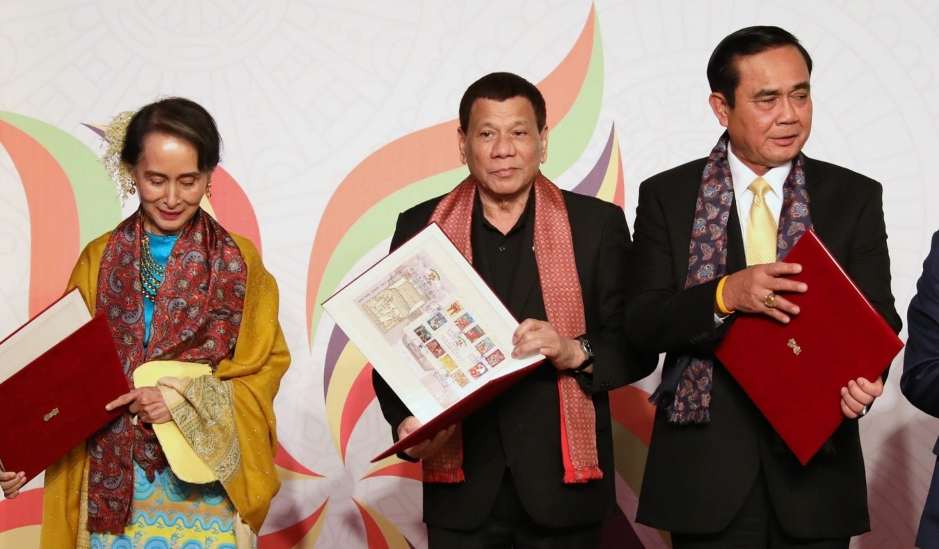 President Rodrigo Roa Duterte prepares to pose for a photo with the heads of state and heads of government who joined the Association of Southeast Asian Nations (ASEAN)-India Commemorative Summit during the releasing of the Commemorative Stamp at the Taj Diplomatic Enclave Hotel in New Delhi, India on January 25, 2018. Also in the photo are Myanmar State Counsellor Aung San Suu Kyi and Thailand Prime Minister Prayuth Chan-ocha. KARL NORMAN ALONZO/PRESIDENTIAL PHOTO